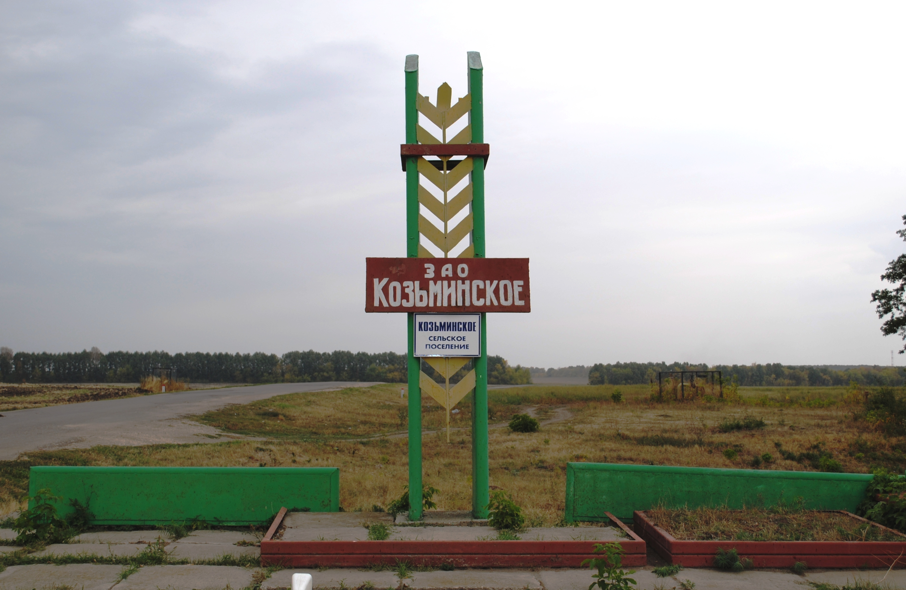 Kozminskoe